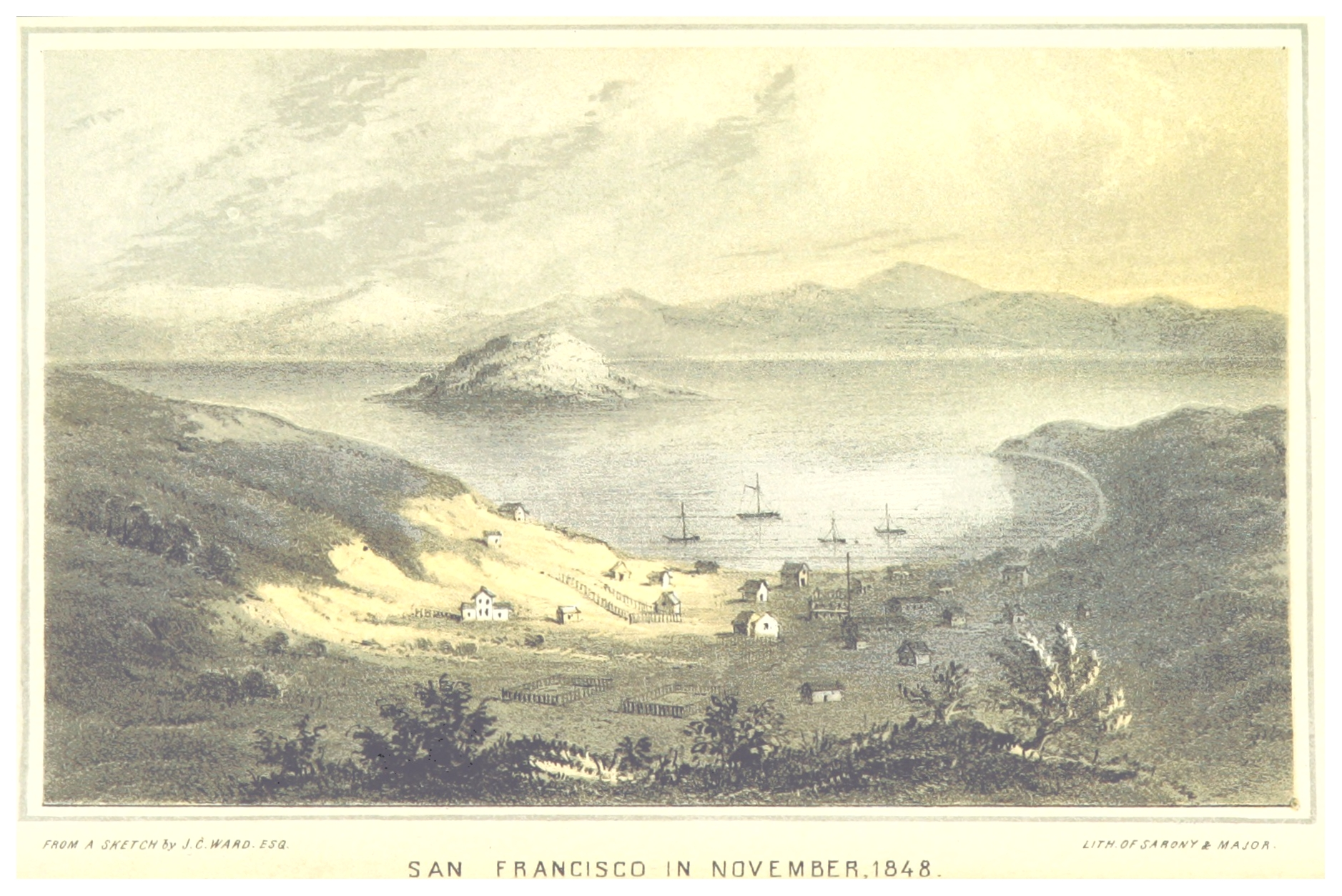 Image from: Eldorado; or, Adventures in the path of Empire: comprising a voyage to California, via Panama, life in San Francisco and Monterey, pictures of the gold region, and experiences of Mexican travel. With illustrations by the author — by Bayard Taylor. (page 10) * Scene of Mission Bay in San Francisco, California, during the early California Gold Rush phase.